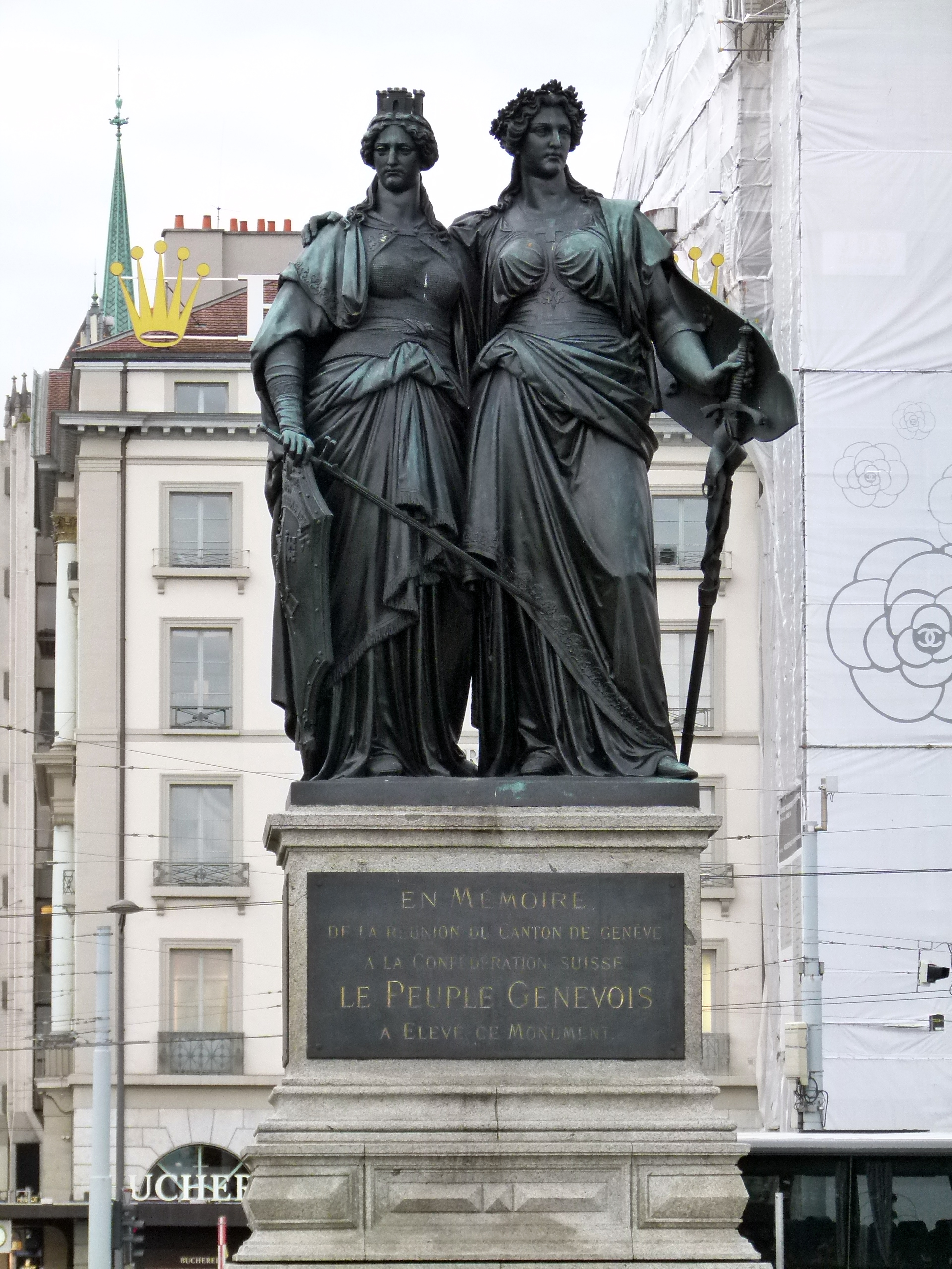 Le Peuple Genovois - National monument in Geneve (1869), showing Geneva and Helvetia. This monument is located in the Jardin Anglais in Geneva and represents the union of the formerly independent Republic of Geneva to Switzerland in 1814. It was created by Robert Dorier (Robert Dorer) in 1869.